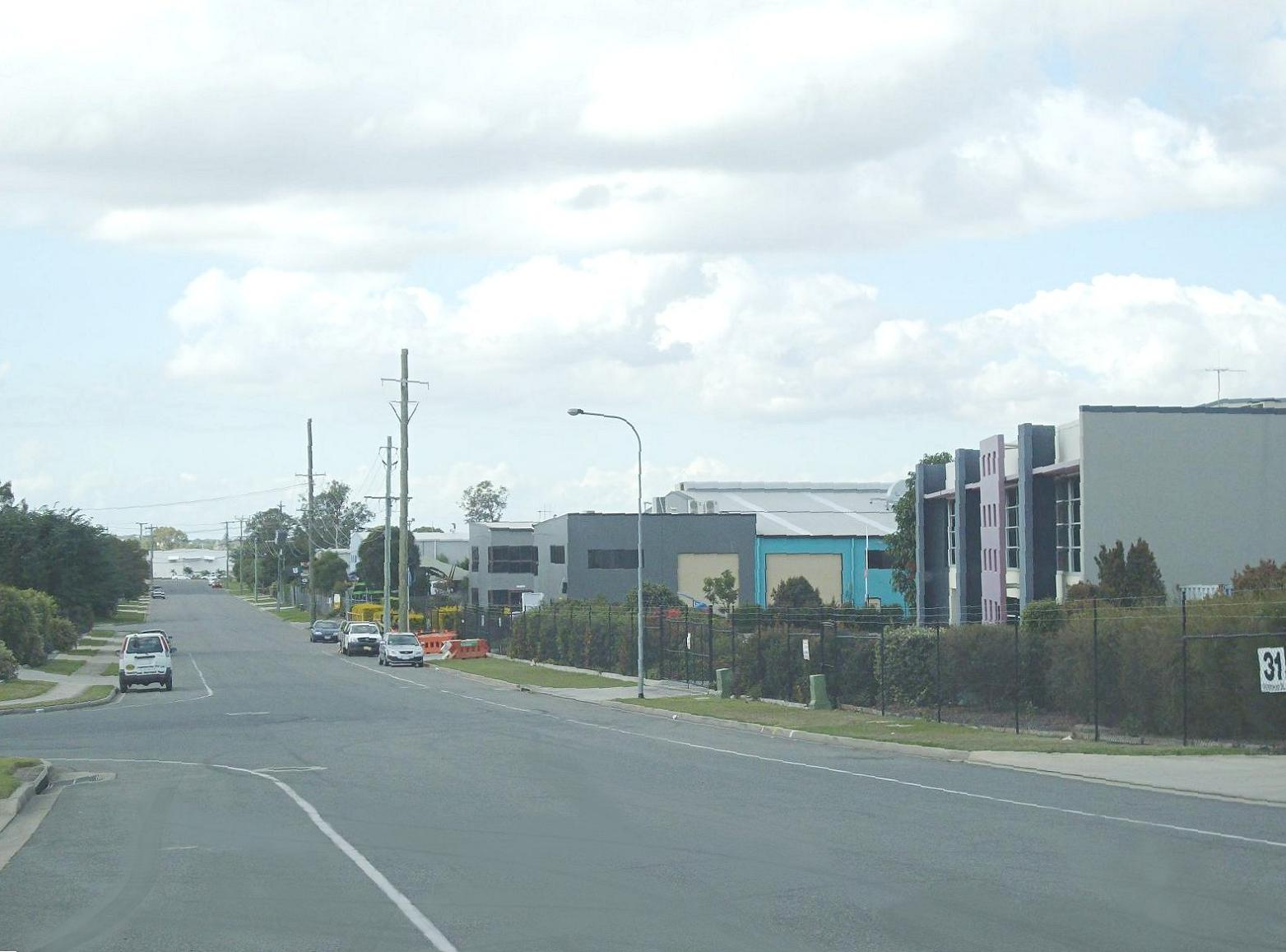 Looking west on c, Moreton Bay Region, Queensland. photo self-taken with own camera Believed not to be of the street stated (see Talk)